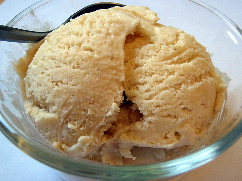 Caramel-Pear Ice Cream